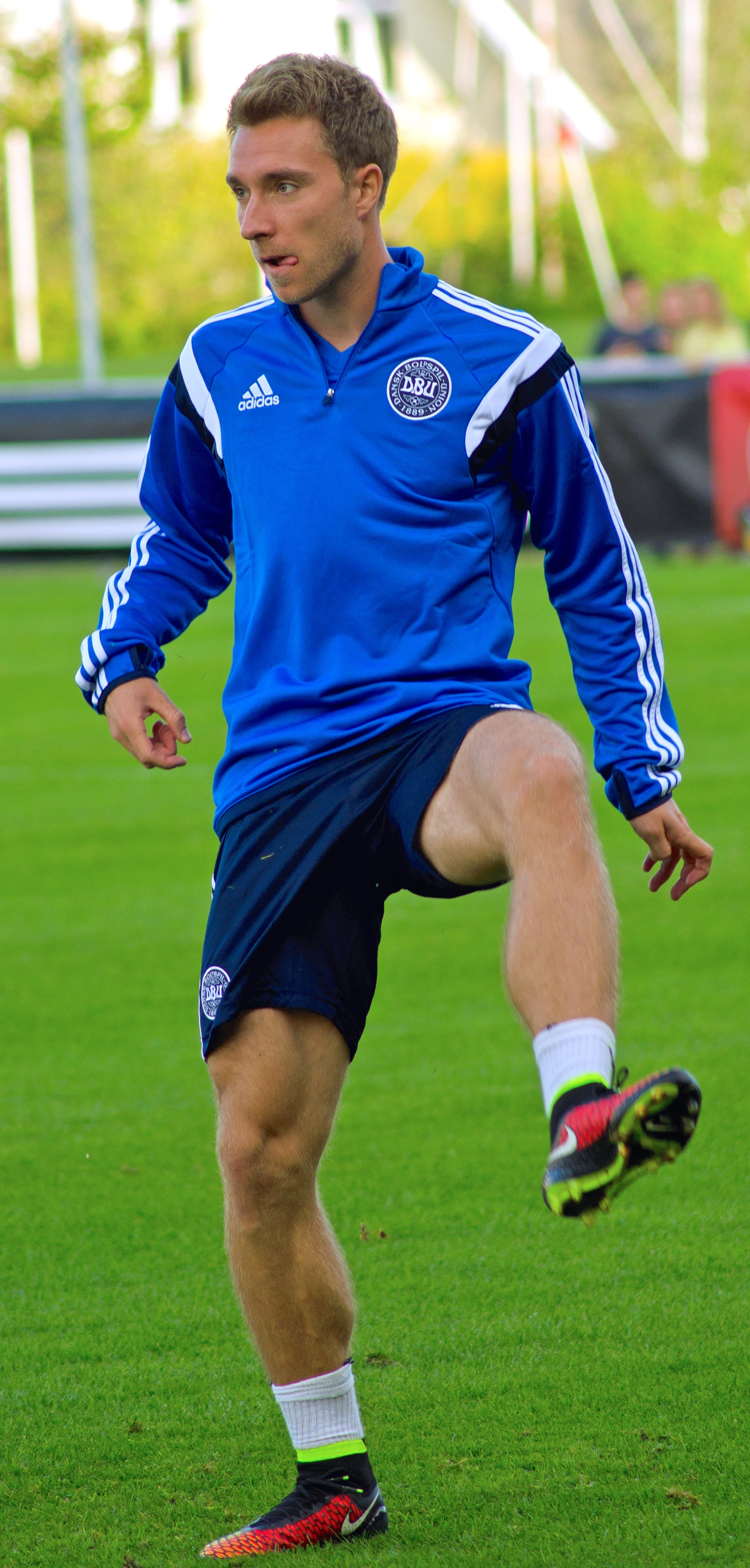 Christian Eriksen training with Denmark national football team.